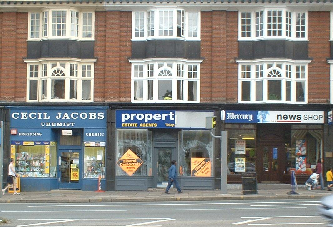 Posters for the Liberal Democrats in a newsagent on London Road in Leicester, on July 15, 2004, the day of the Leicester South by-election.